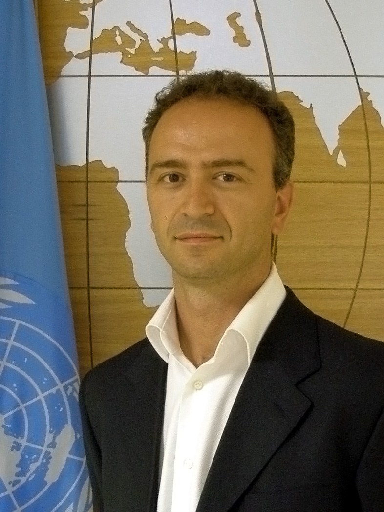 Portrait of the United Nations Official Francesco Cappè